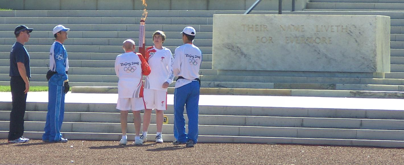 Two runners in the 2008 Summer Olympics Torch Relay: Julius (Judy) Patching hands over to Jake Warcaba at the Stone of Remembrance, Australian War Memorial, in Canberra, Australian Capital Territory.